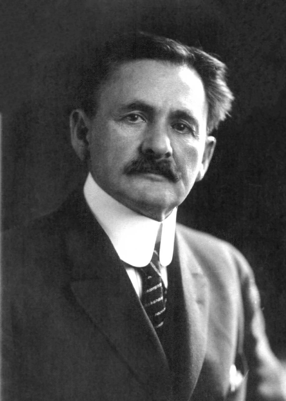 Photograph of Nobel Laureate Albert A. Michelson.